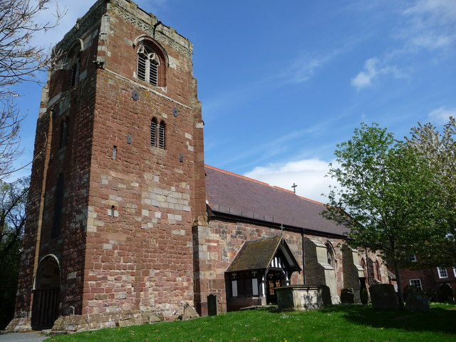 St. Eata's Church The West face of St. Eata's Church.